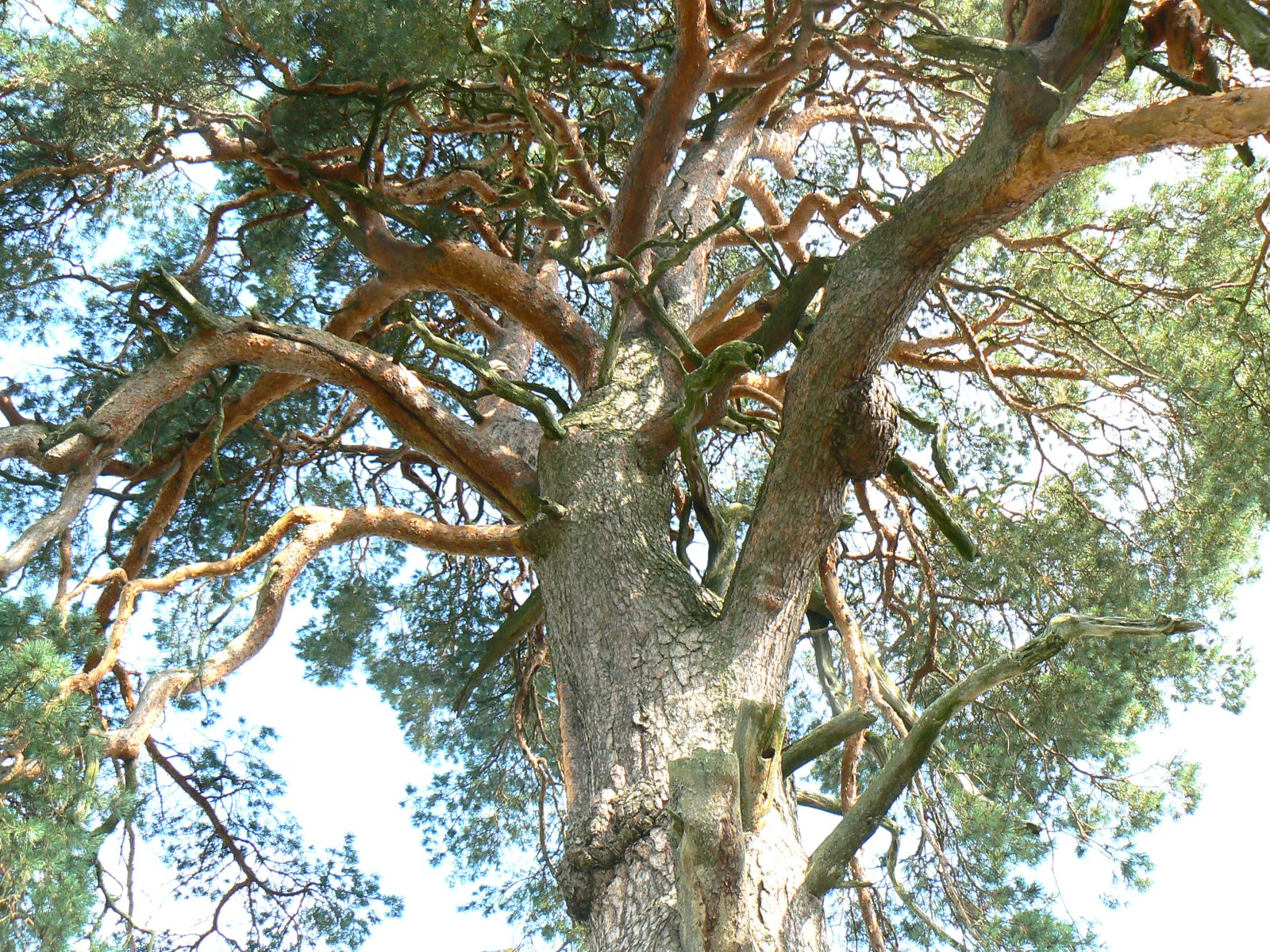 Kuldijüri pine crown in Estonia